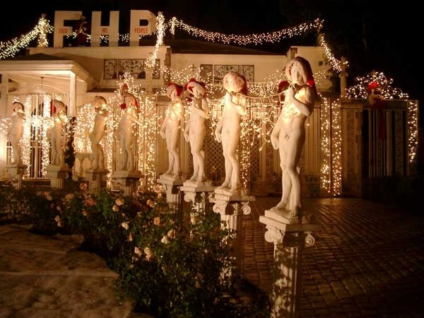 Replicas of Michelangelo's David at "Youngwood Court" in Los Angeles, decorated for Christmas 2005.